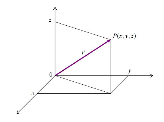 Components of a position vector are Cartesian coordinates of its end point.